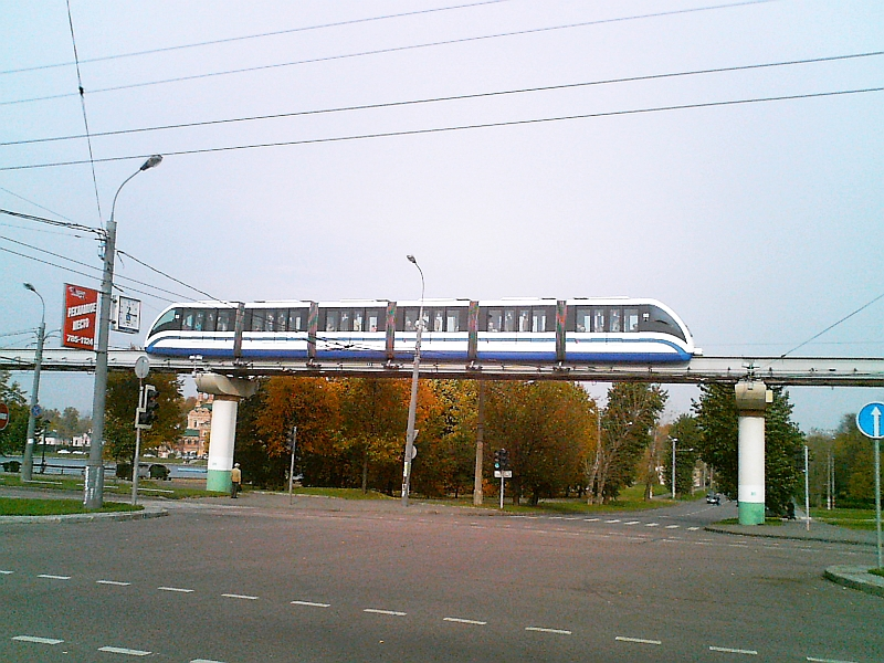 Monorail at Ostankino, Moscow, Russia